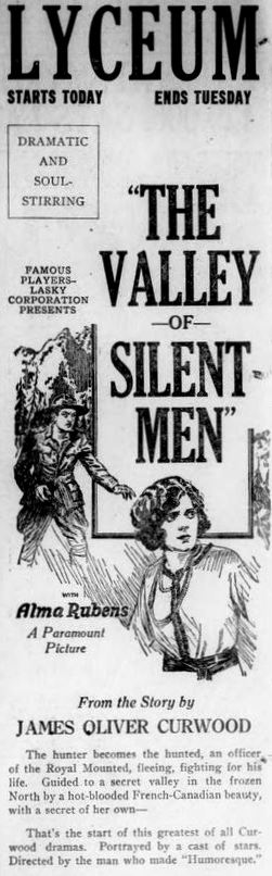 Newspaper advertisement for the American film The Valley of Silent Men (1922) with Alma Rubens, on page 2 of the September 16, 1922 Duluth Herald.